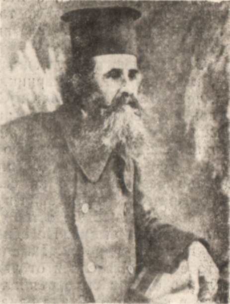 portrait of Toma Nikolov